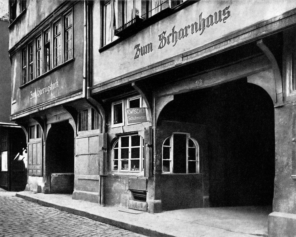 Frankfurt on the Main: Late-gothic ground floors of the houses Bendergasse (Coopers Lane) No. 11 and 13 also known as Scharnhaeuser (Scharn Houses) in the Altstadt (Old Town)